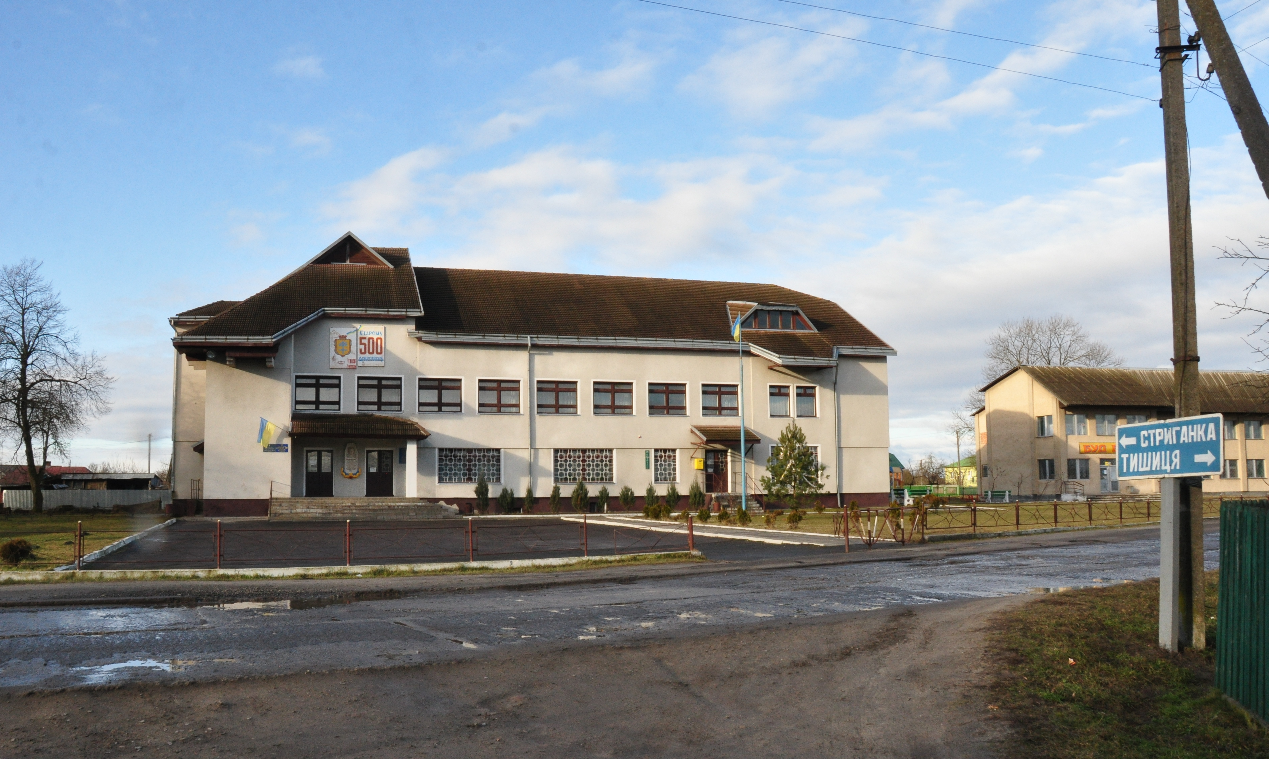 Village Council in Staryj Dobrotvir? Kamyanka-Buzka Raion, Lviv Oblast. The plaque on the building dedicated to the 500 Anniversary of the settlement.